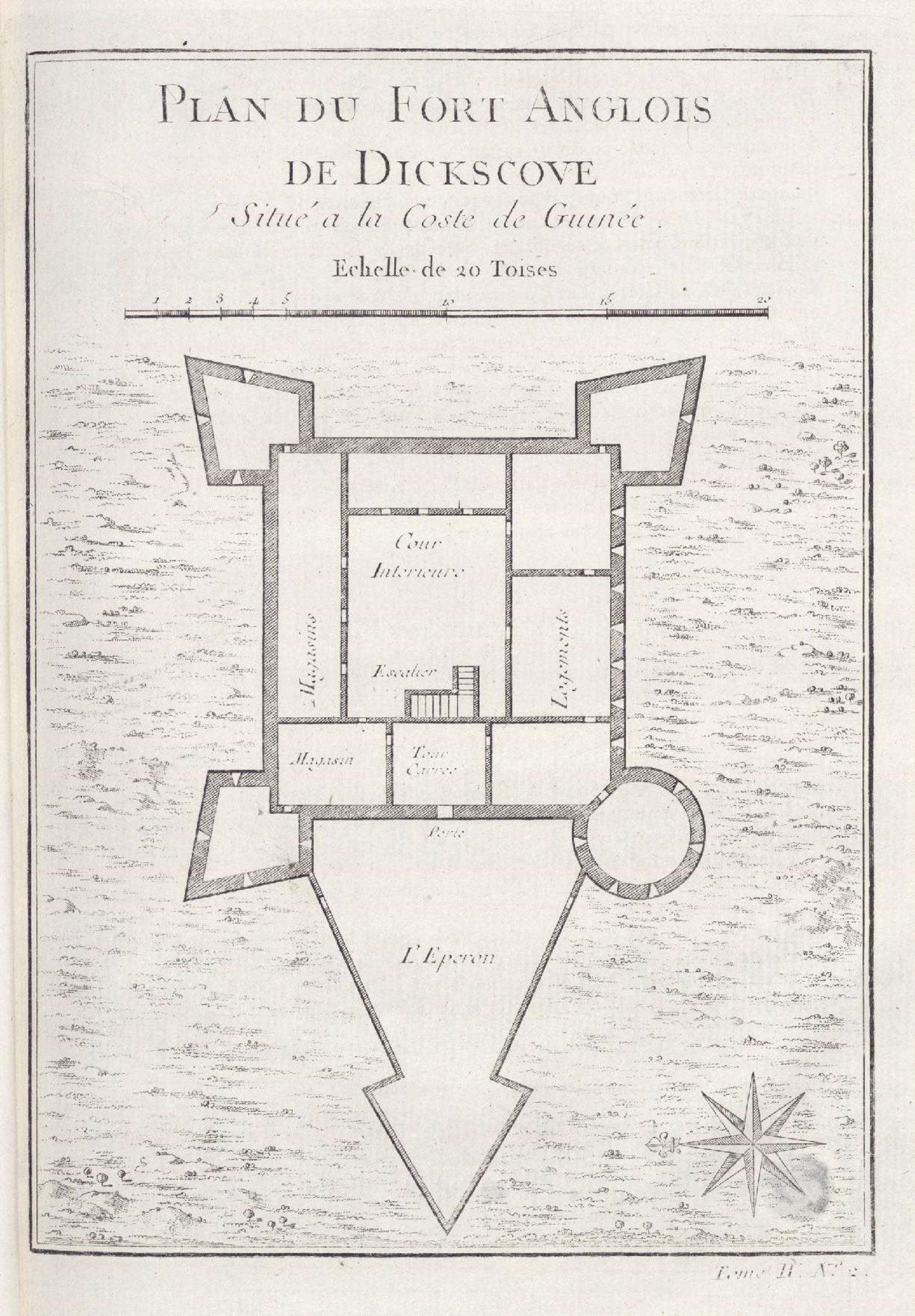 Floor plan of the fort of Dickscove. Plan du Fort Anglois de Dickscove / Situé a la Coste de Guinée. Bottom right: Tome IV. No: 2.